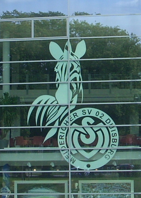 coat of arms of the MSV Duisburg